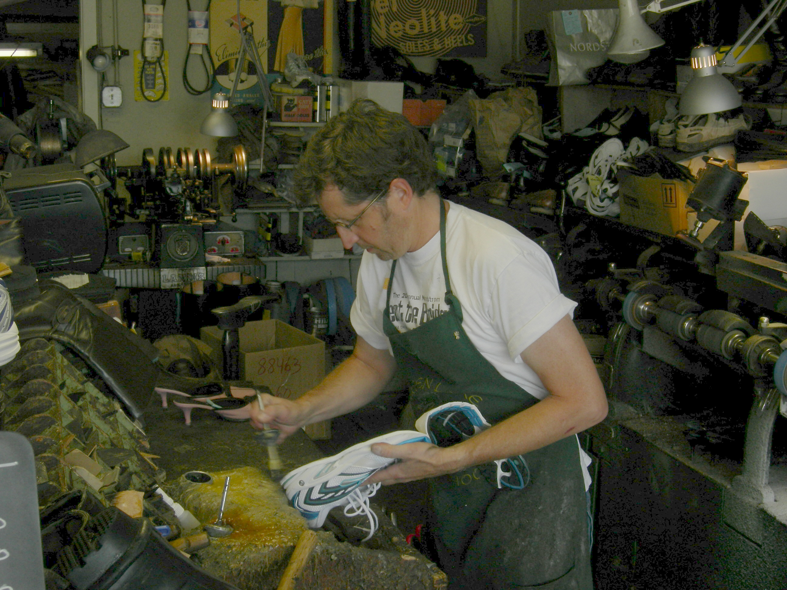 Swanson Shoe Repair (founded 1928), Wallingford neighborhood, Seattle, Washington.